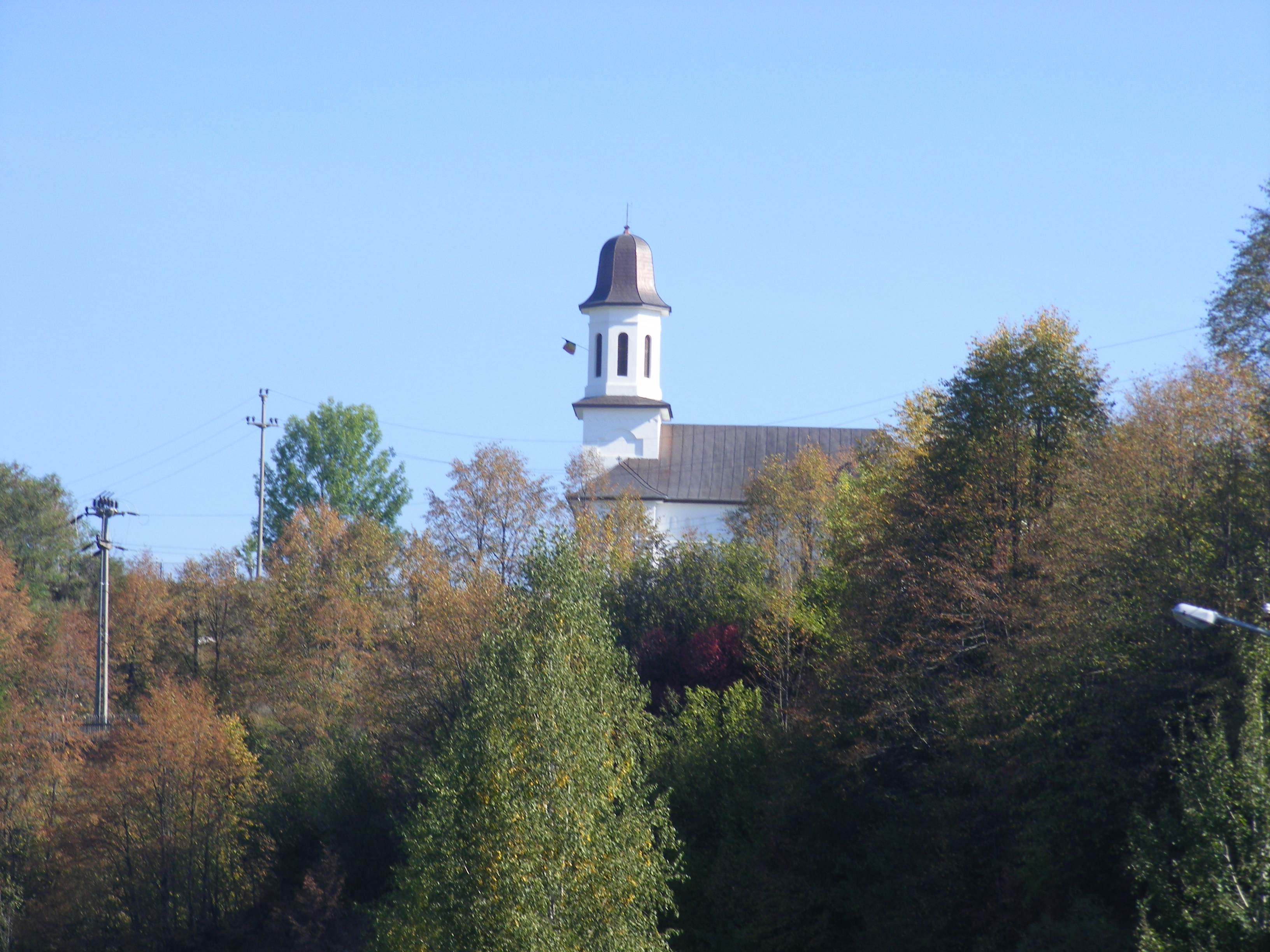 Orthodox church in Hodoșa (Sărmaș). Gyergyóhodos, Salamás község